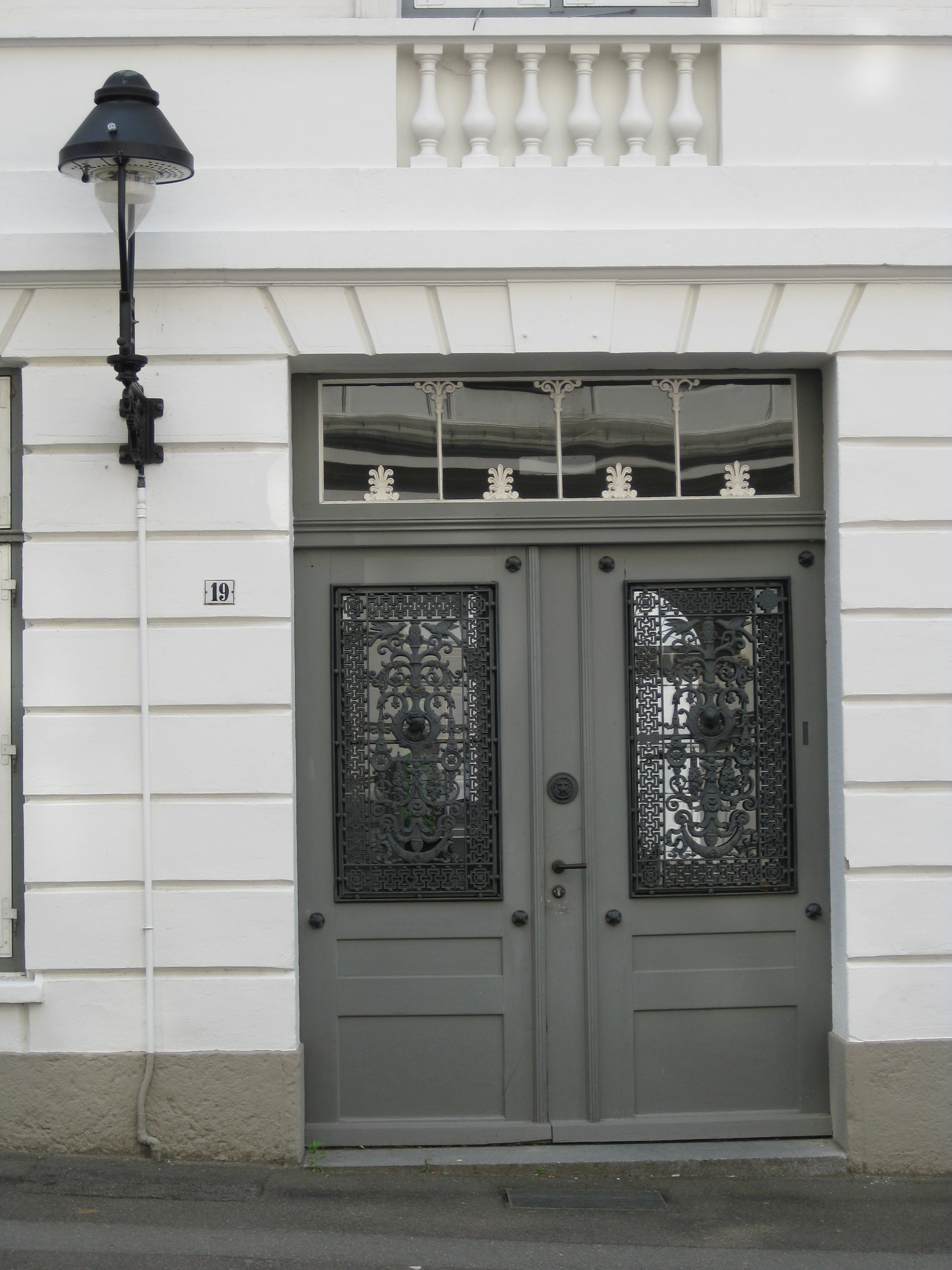 Portal of Große Petersgrube 19 in Lübeck. Architect Joseph Christian Lillie (1824-25).